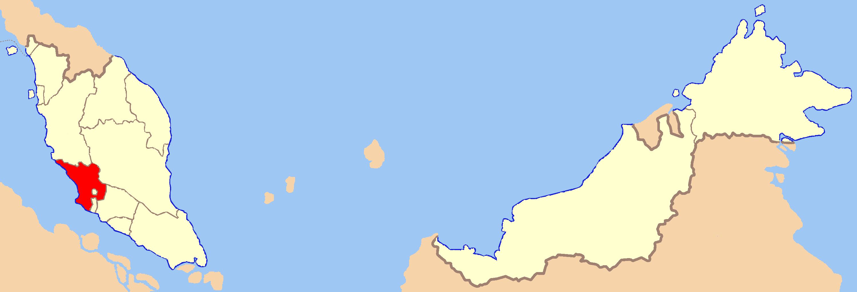 Map of Malaysia with Selangor highlighted